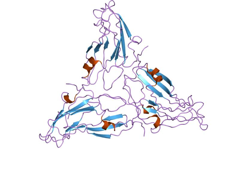 Cartoon representation of the molecular structure of protein registered with 1e57 code.